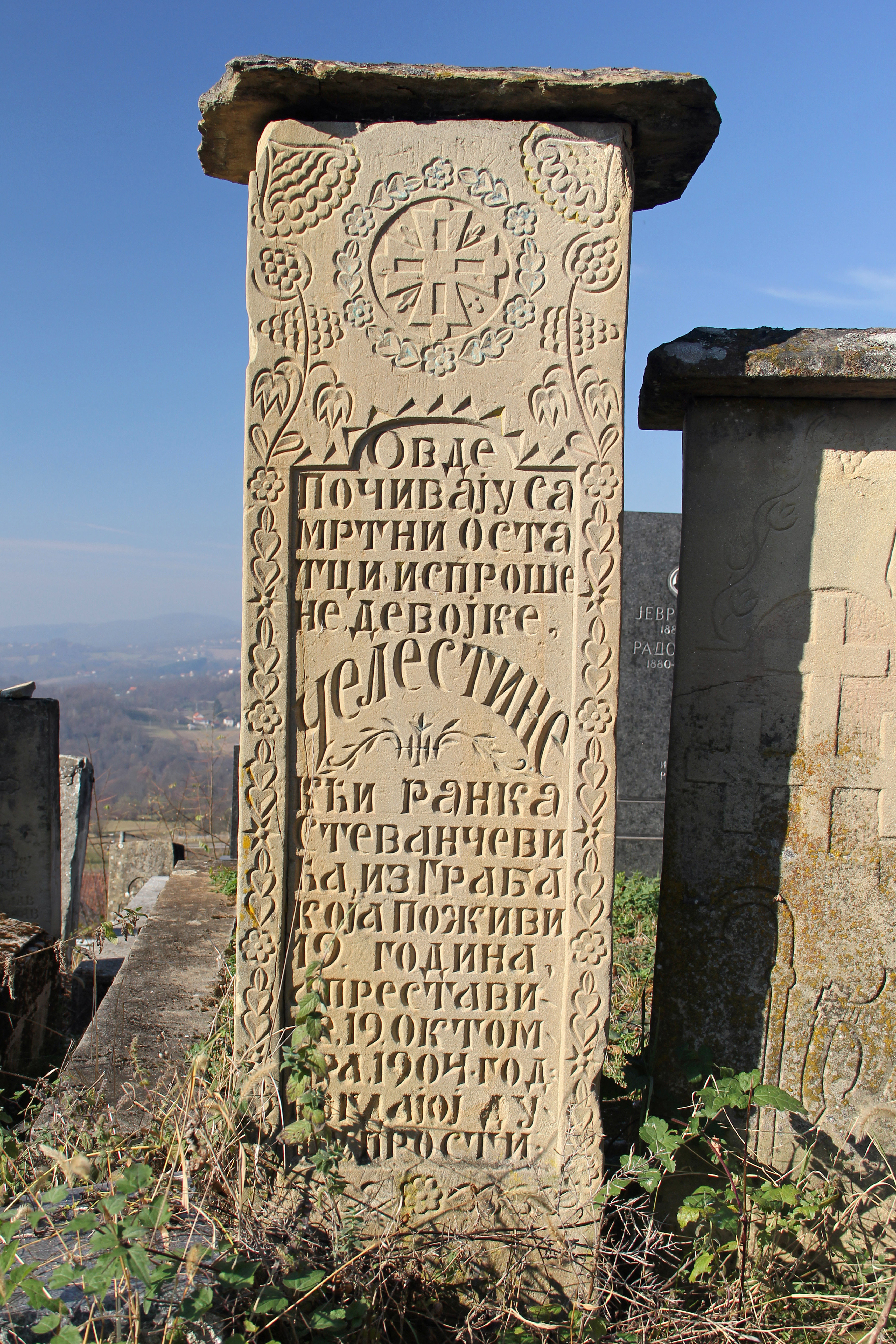 Old gravestones at the Rajcica cemetery in the village of Grab (the municipality of Lucani), Serbia.